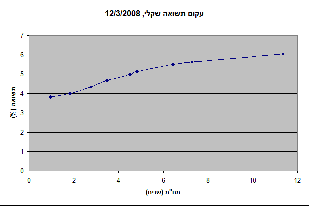 Yield curve on Israeli government bonds, Non-Linked Fixed Rate (Shahar)